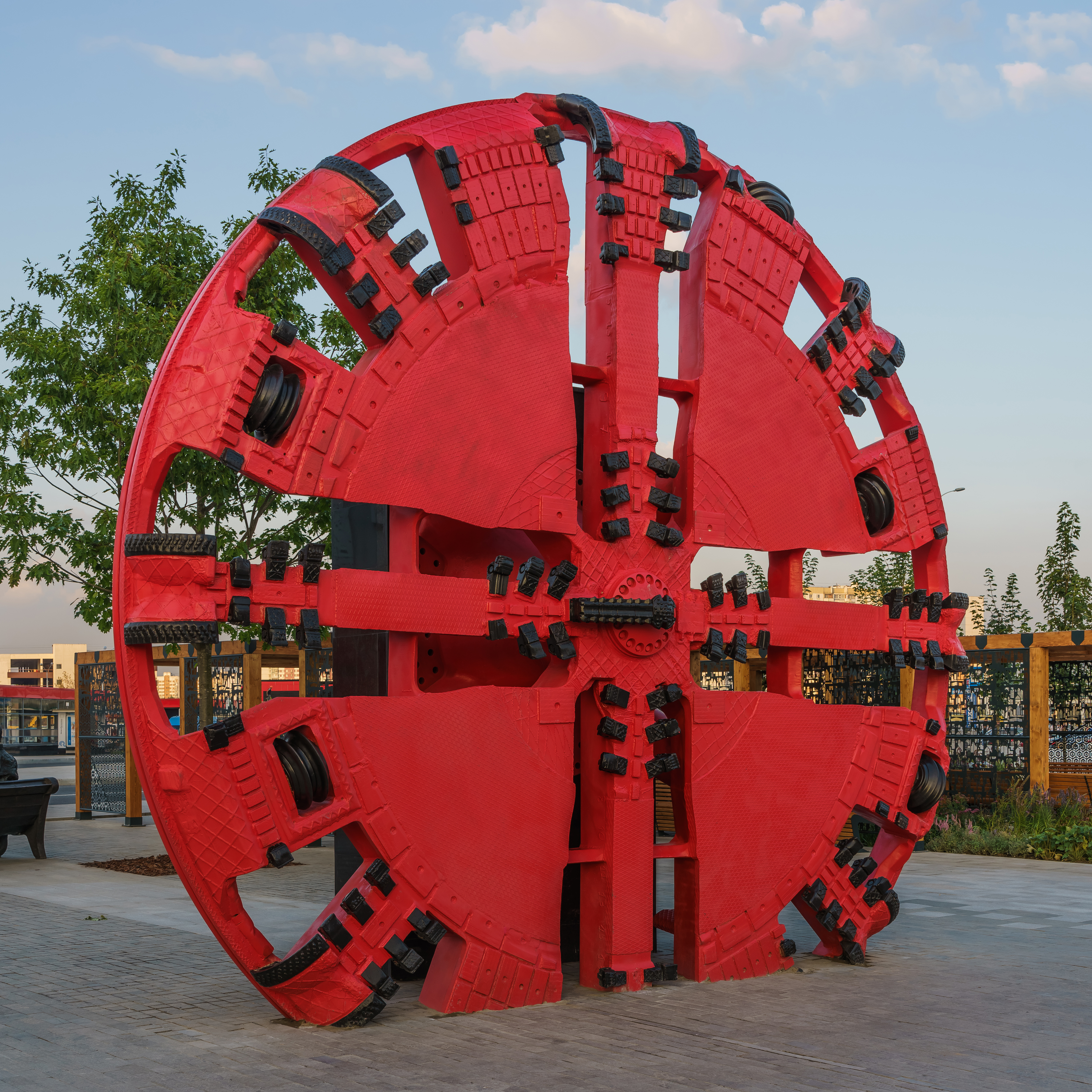 Detail of a tunnel boring machine now used as part of a sculptural composition at the entrance of Rasskazovka metro station in Moscow, Russia